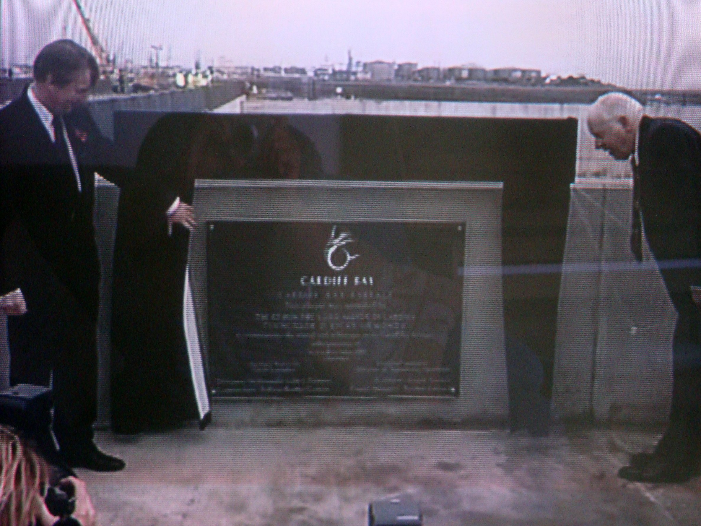 Former Lord Mayor of Cardiff Councillor Ricky Ormonde (right) unveils the plaque proclaiming the inauguration of the Cardiff Bay Barrage in November 1999. Cardiff South and Penarth Labour MP Alun Michael is on the left.